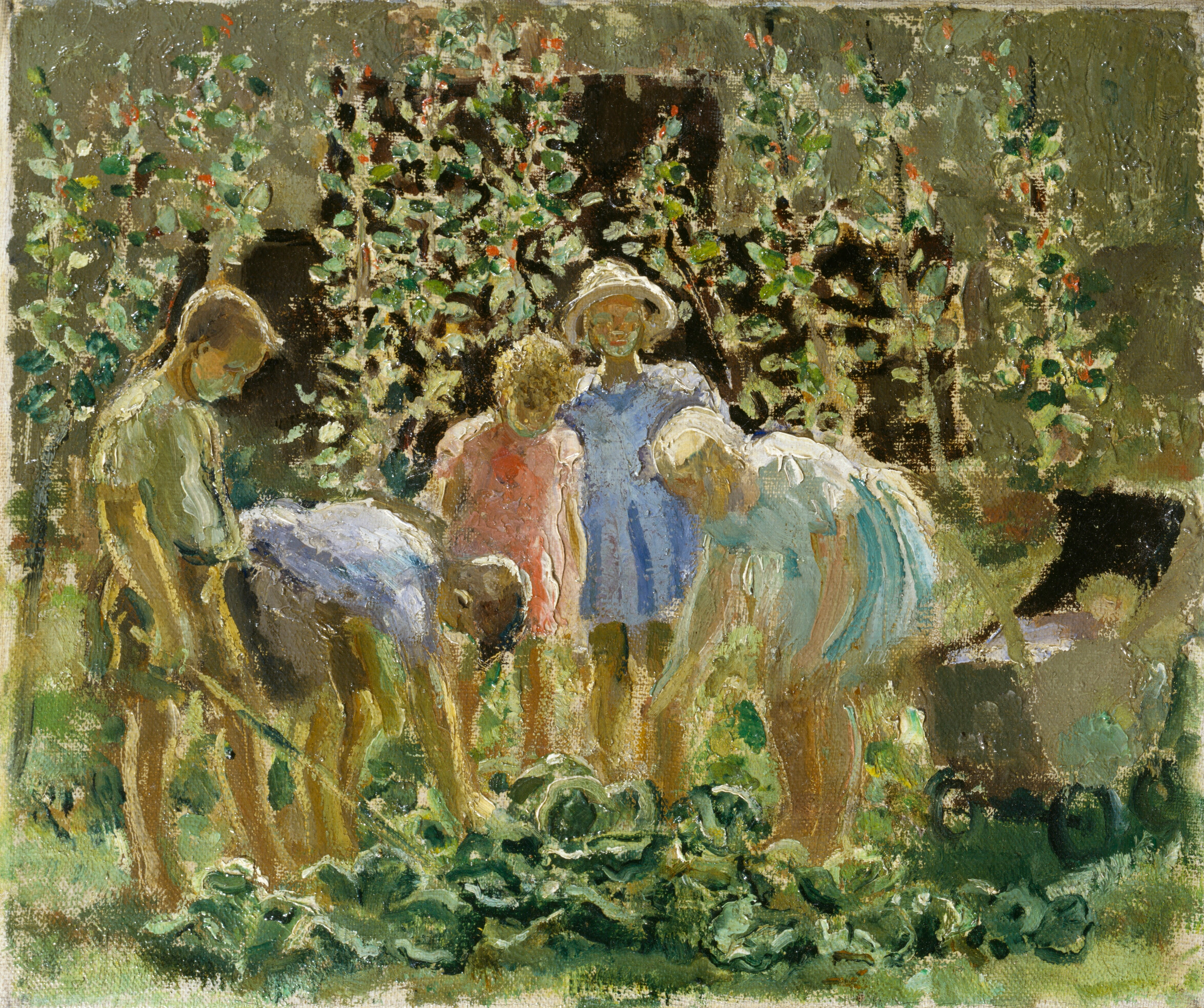 A group of 5 children evacuees tending a garden cabbage patch with a pram beside them